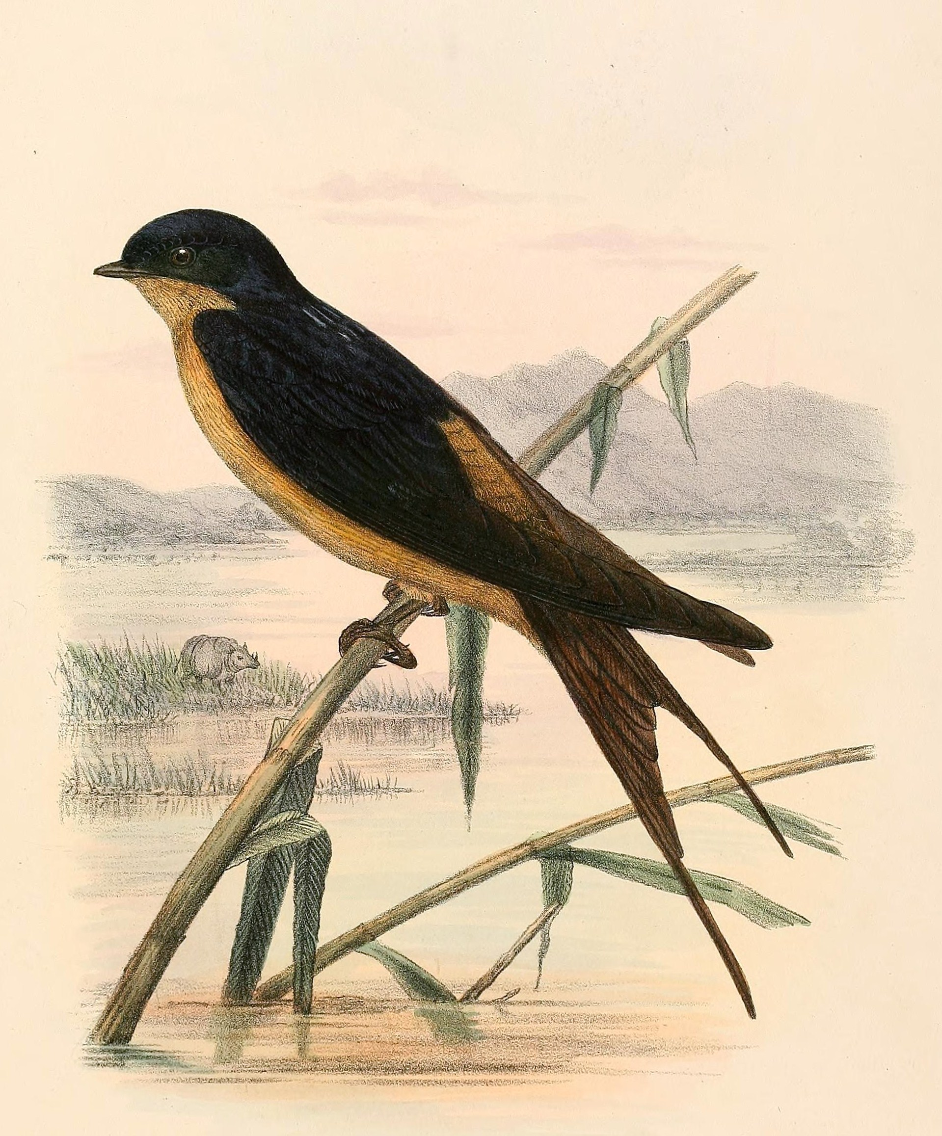 « Hirundo semirufa » = Cecropis semirufa (Red-breasted Swallow)